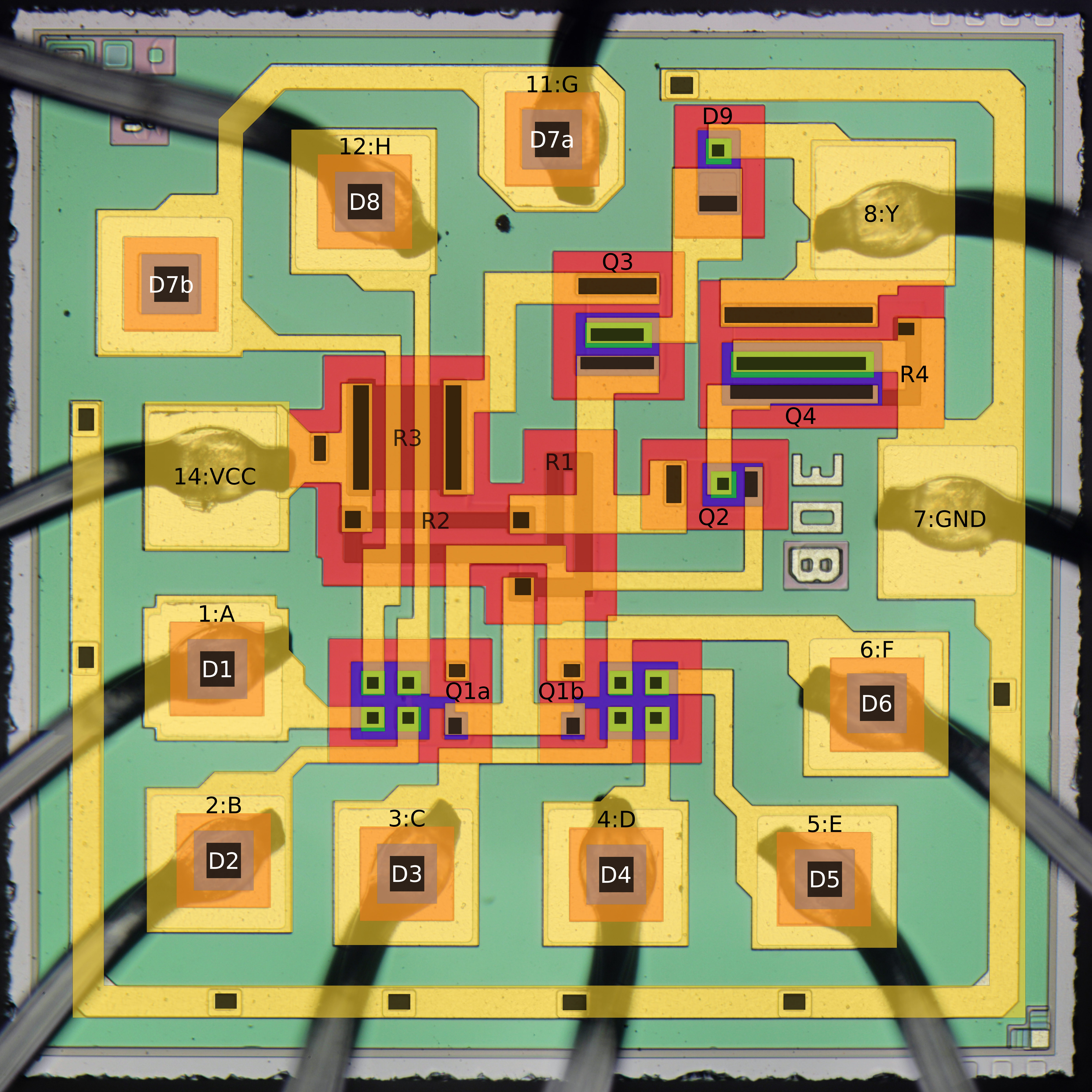 Annotated die photo of a Texas Instruments 7430 chip, datecode 0413.